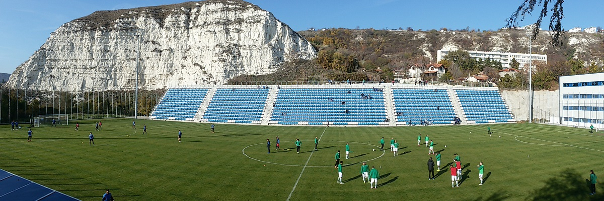 Balchik Stadium in Balchik, Bulgaria